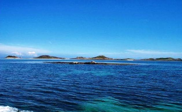 The Eastern Isles from Crow Sound, Scilly. The small knoll of Damasinnas is in the mid ground. In the distance from the left is Nornour, Great Ganilly, Little Ganilly, Little Arthur and Great Arthur.